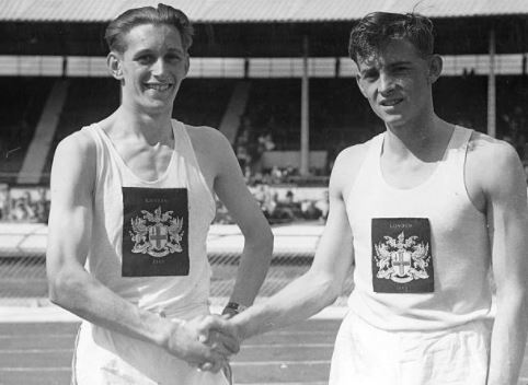 1949.08.06 English Native High Jump Record. Peter Wells (left) with Ron Pavitt